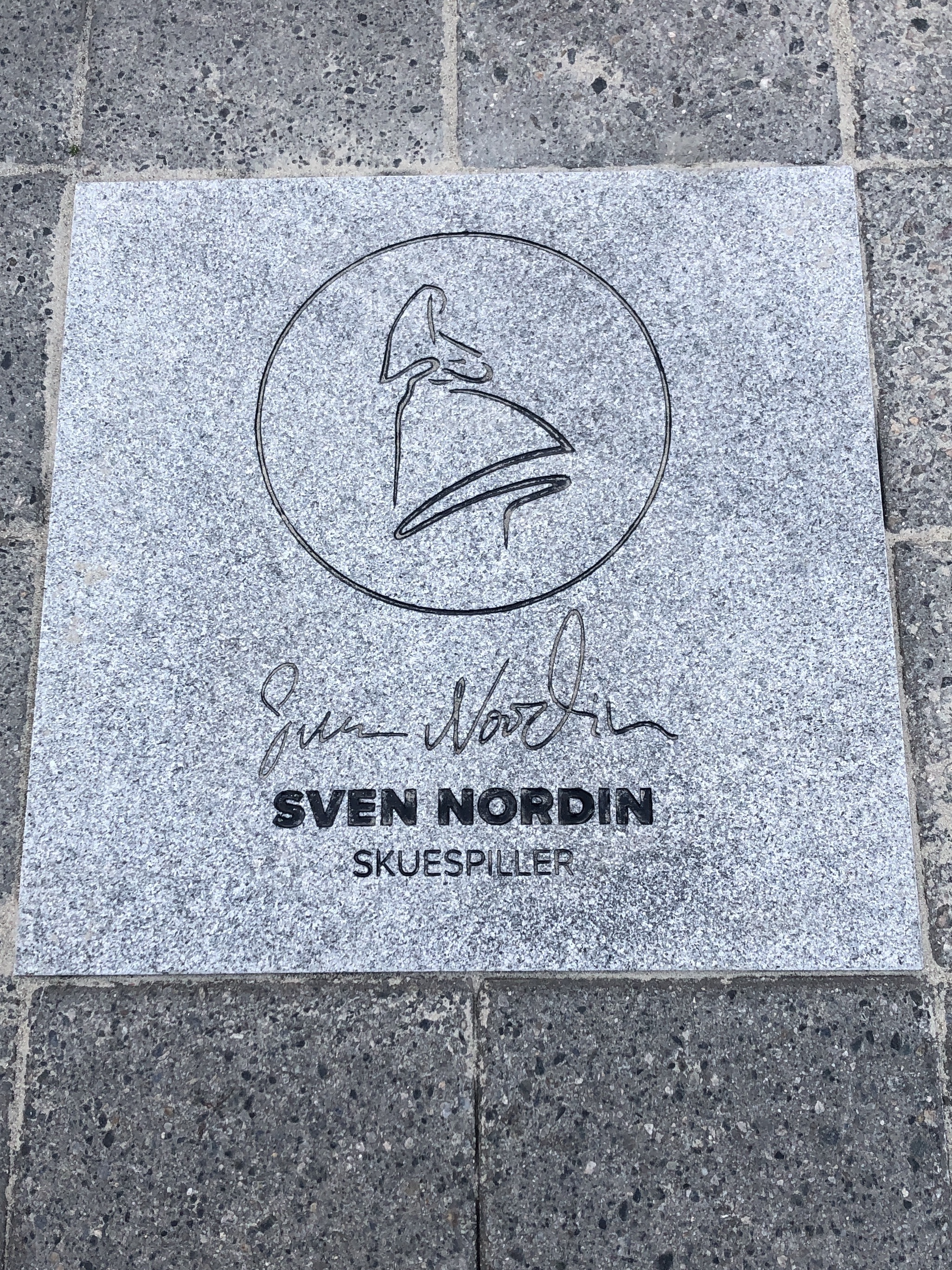 Sven Nordin's stone at Haugesund Walk of Fame